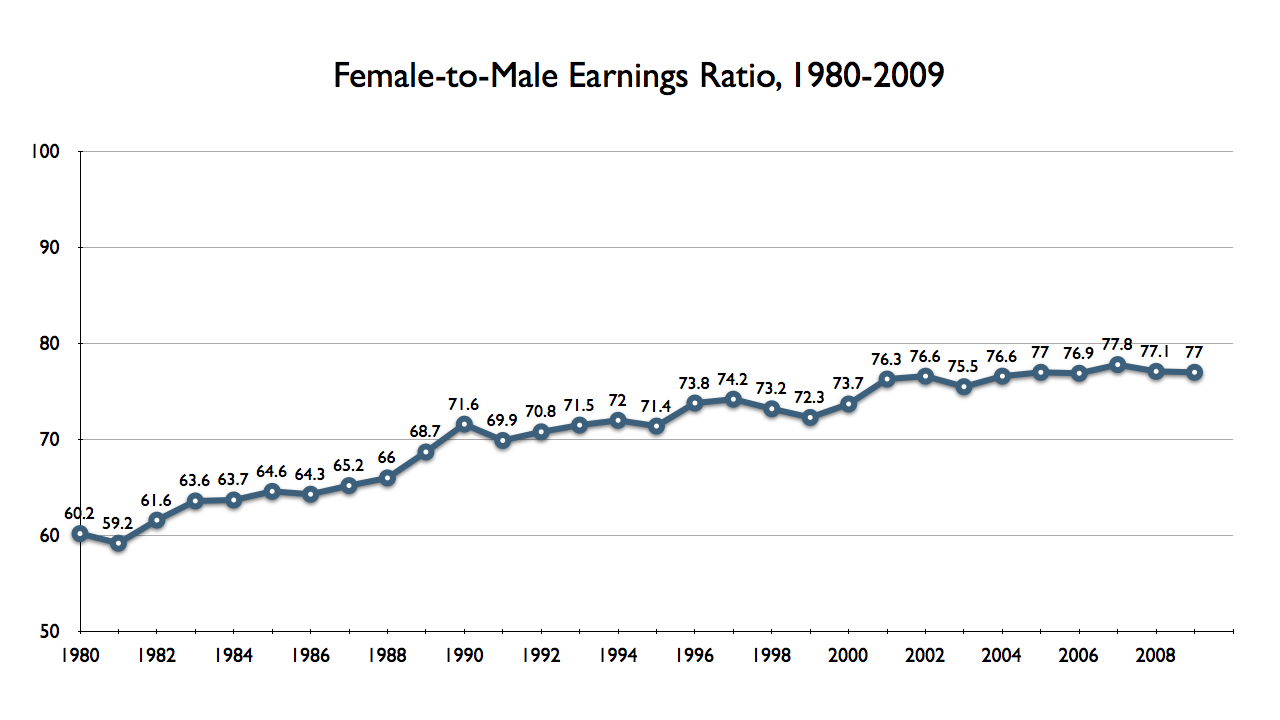 Female-to-male earnings ratio, median yearly earnings among full-time, year-round workers, 1980-2009